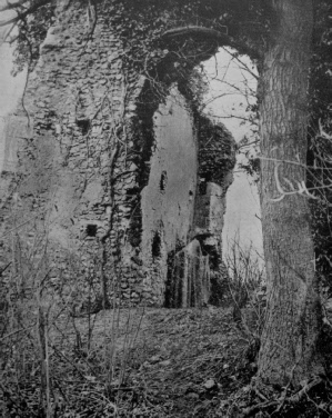 Photograph of the 'ghost' of Minsden Chapel taken in 1907